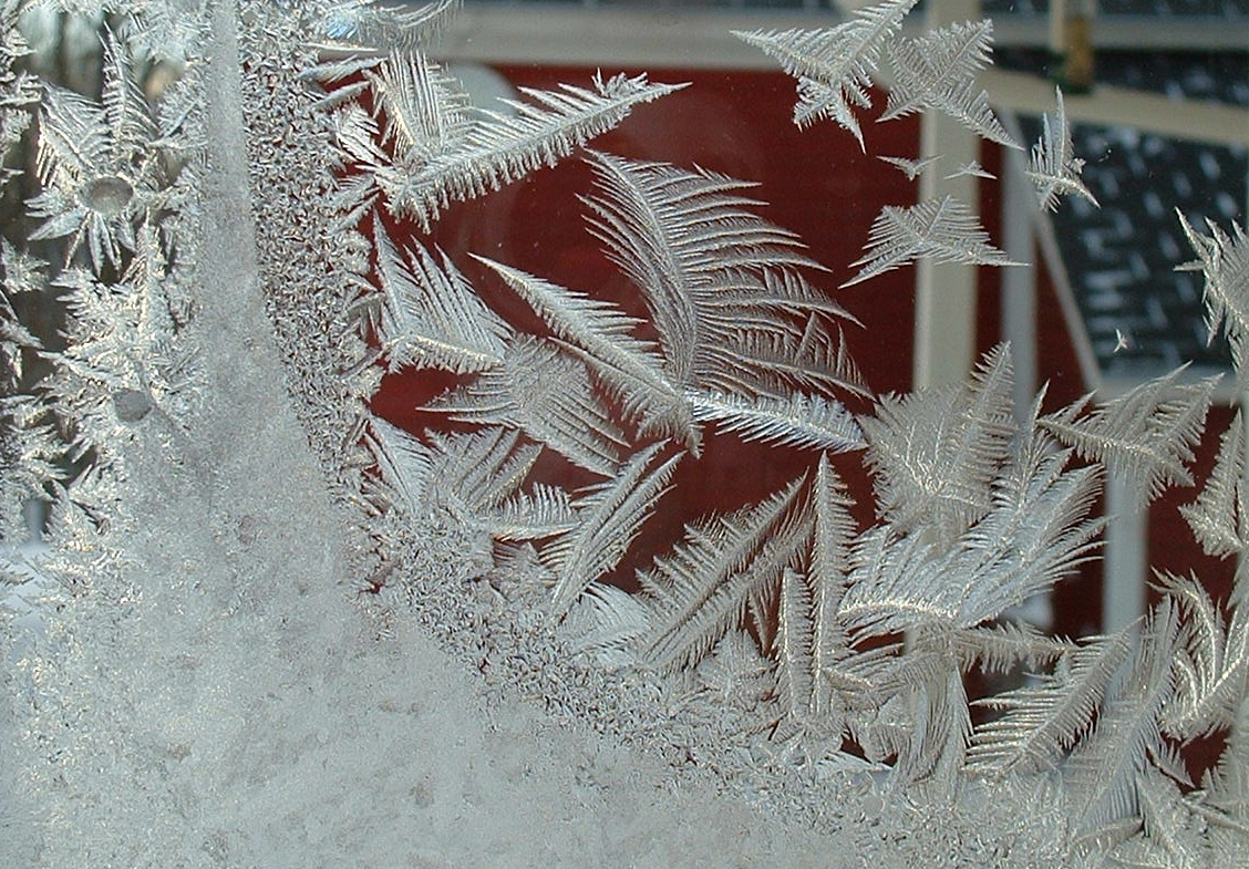 there is just something about the frosted window, that i just love and will continue to take pictures offrosty window